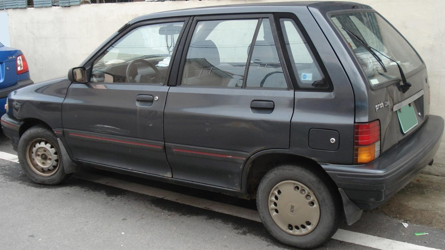 Kia Pride